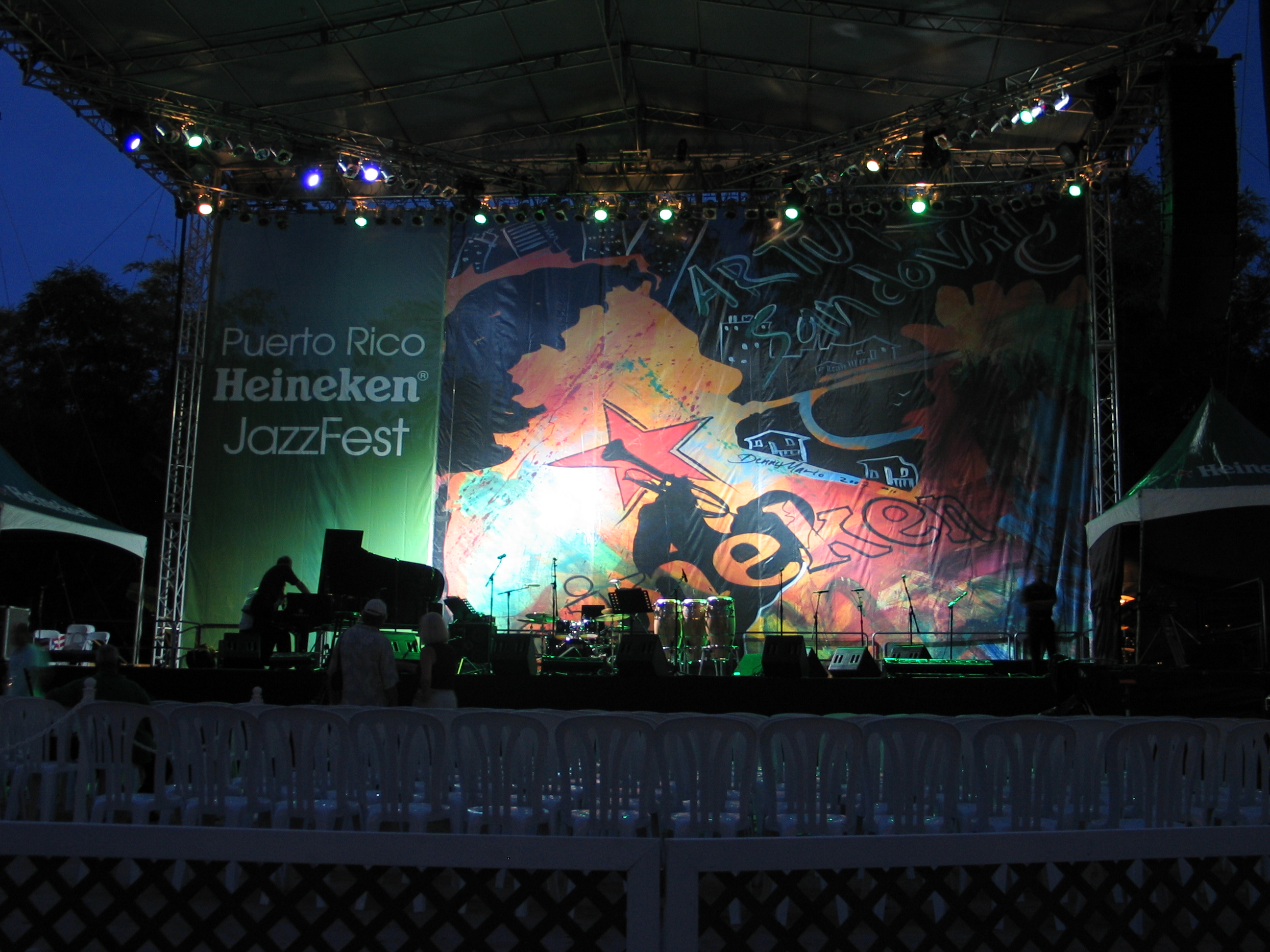 Puerto Rico Heineken Jazz Fest 2007